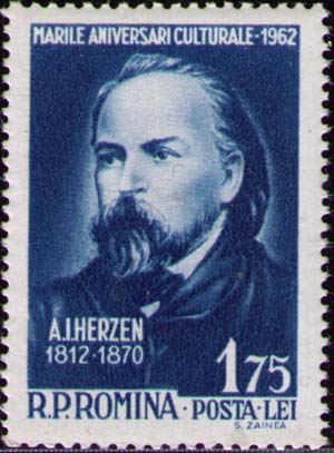 Aleksandr Herzen. Series: Anniversaries of culture. Post of Romania 1962.